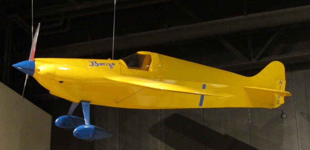 Wittman DFA